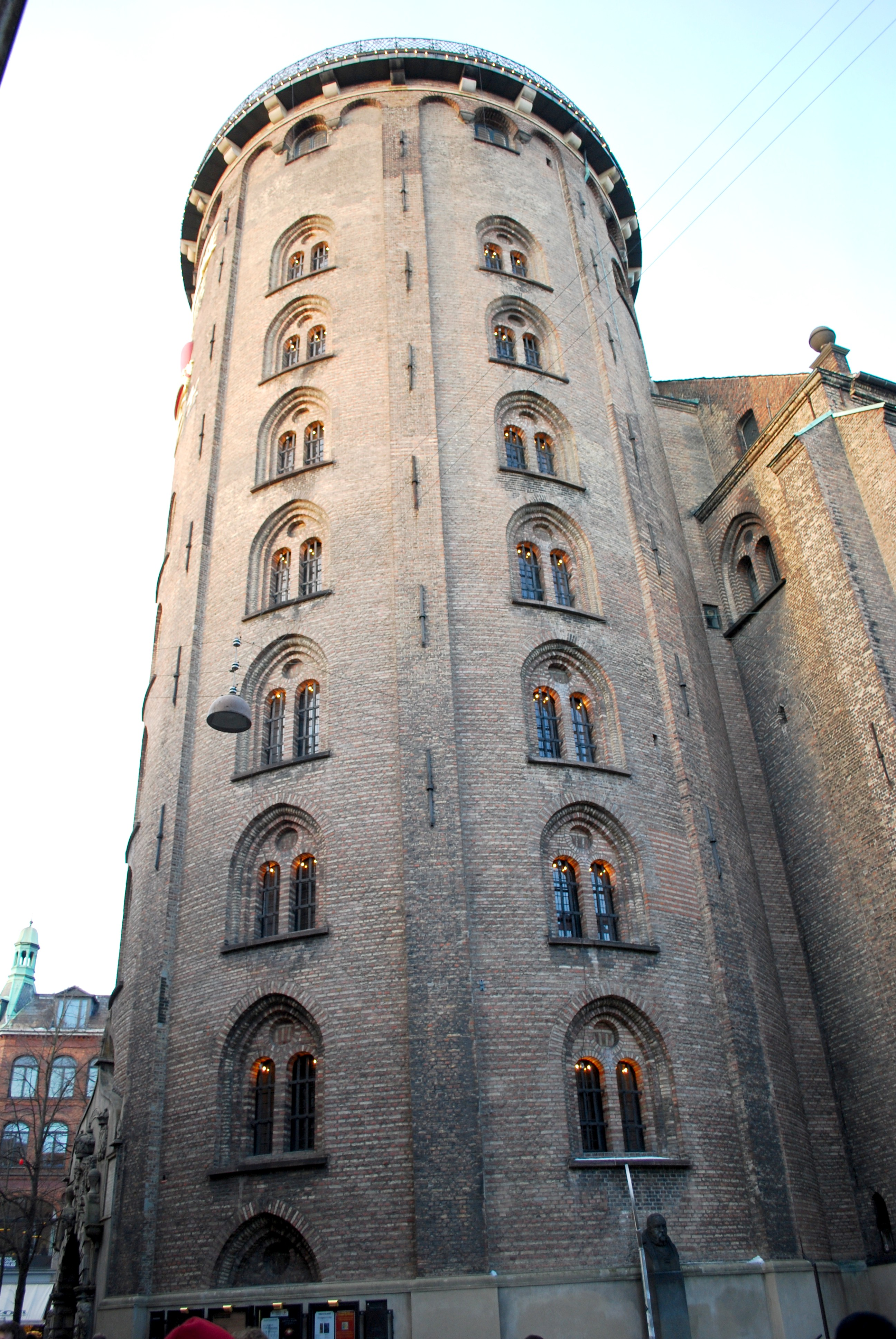 Rundetårn (